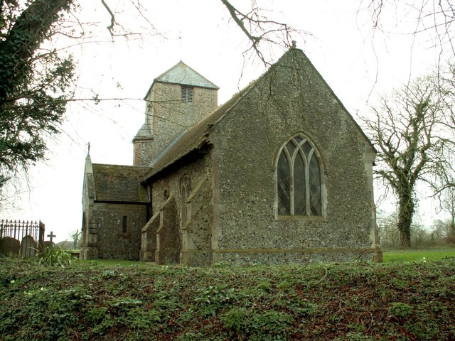 St Peter's parish church, Athelington, Suffolk, seen from the east